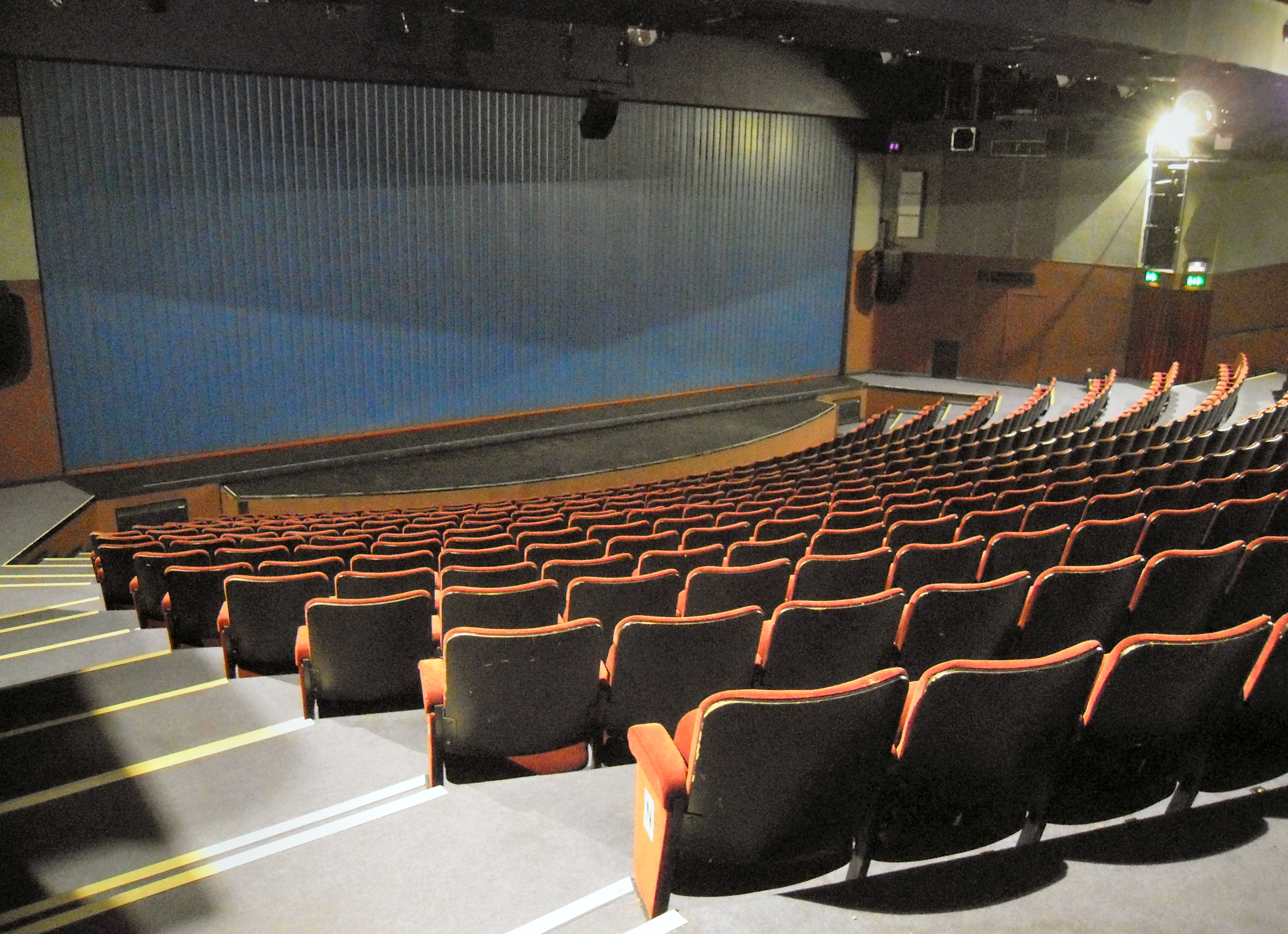 The auditorium of the Gordon Craig Theatre in Stevenage in Hertfordshire in 2016